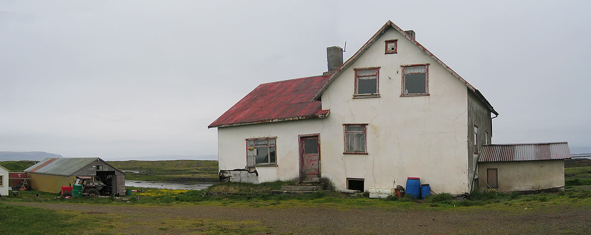 Skáleyjar á Breiðafirði, photo by Salvor Gissurardóttir, june 2006 This is picture of the old farm house in Skáleyjar.